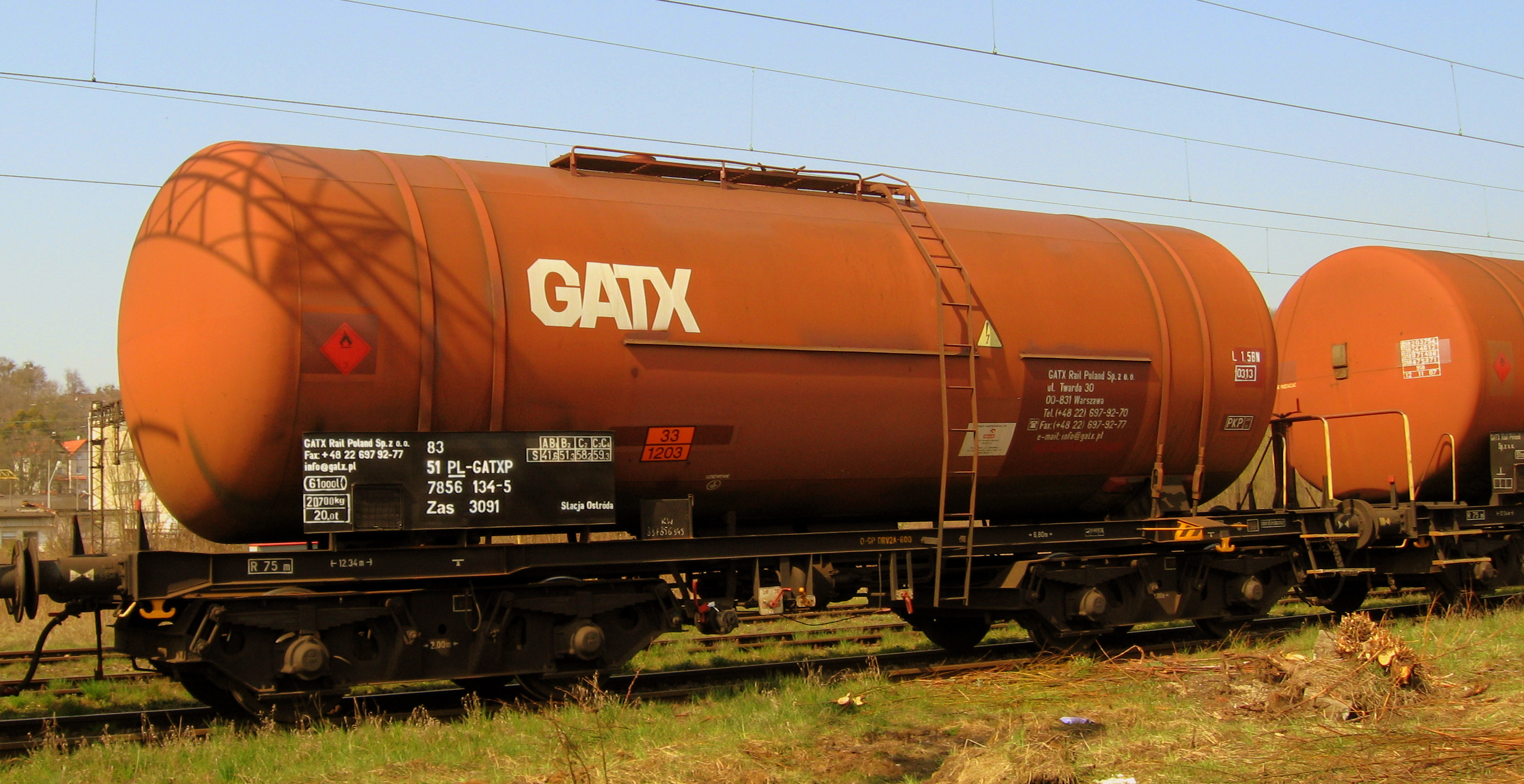 Tank wagons / GATX